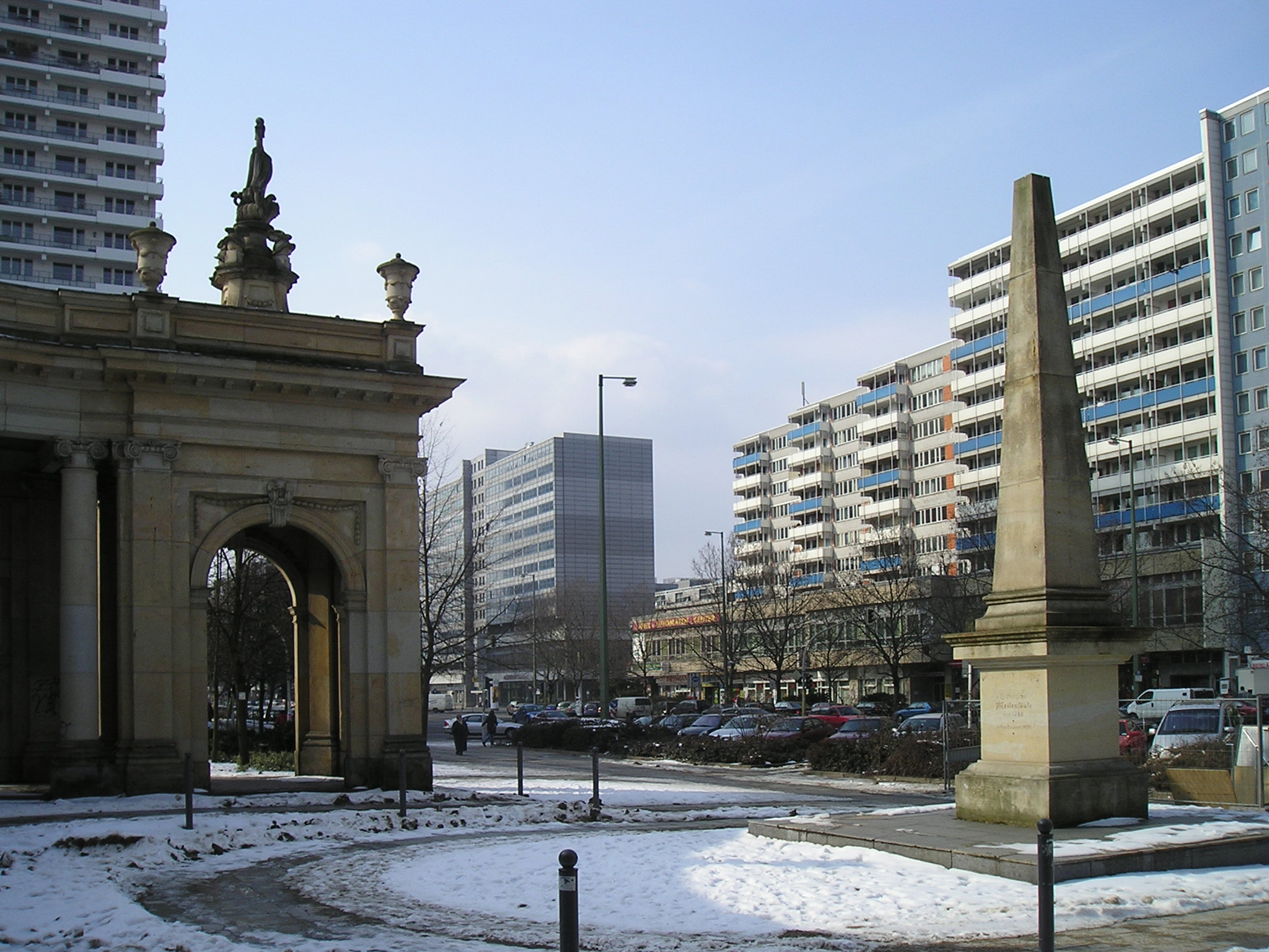 The Spittelkolonnaden at the Leipziger Straße in Berlin